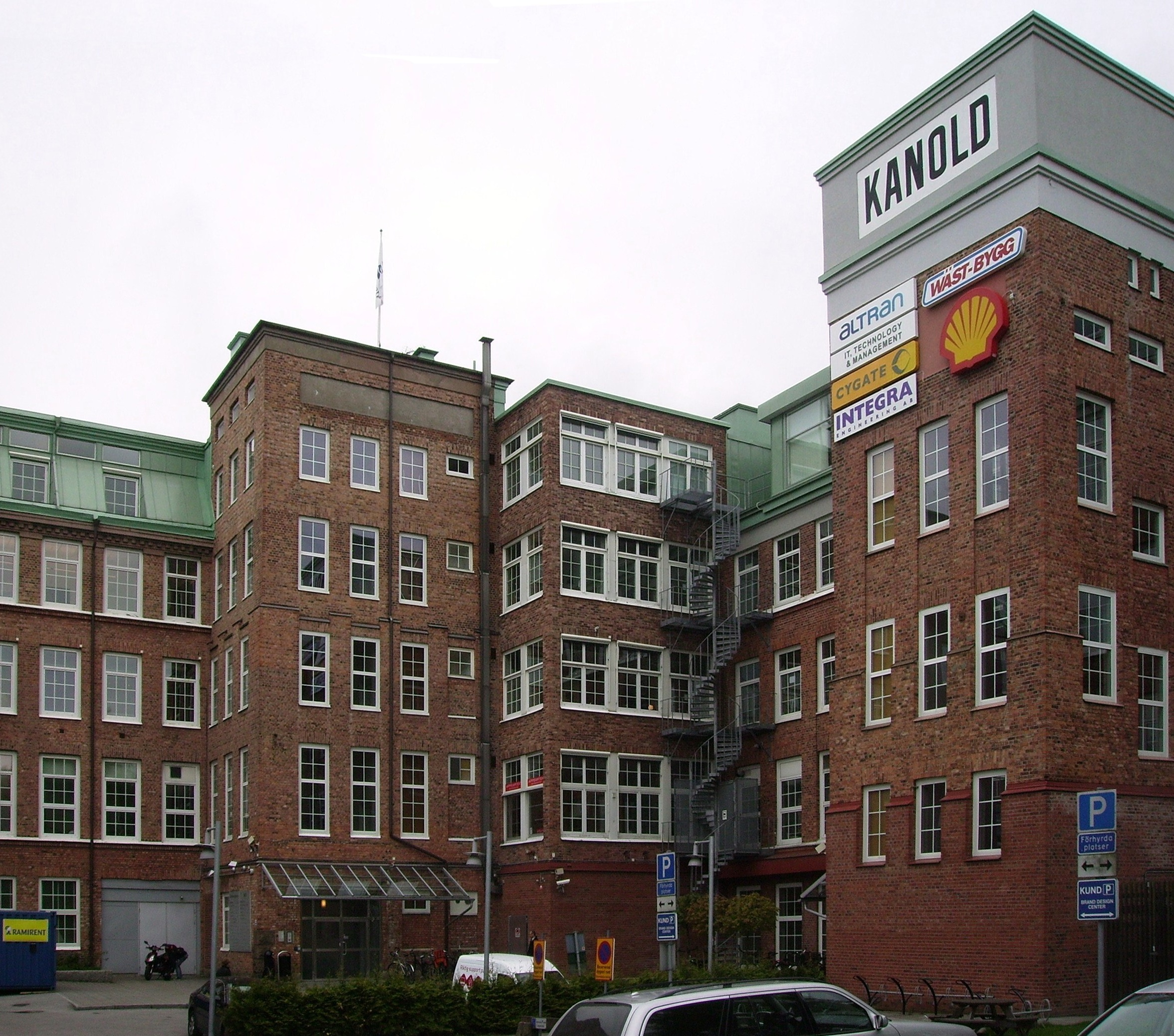 Picture of Kanold, Swedish factory in Göteborg